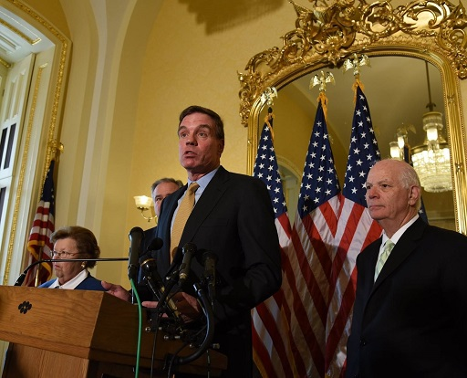 Warner Loudoun Times Mirror